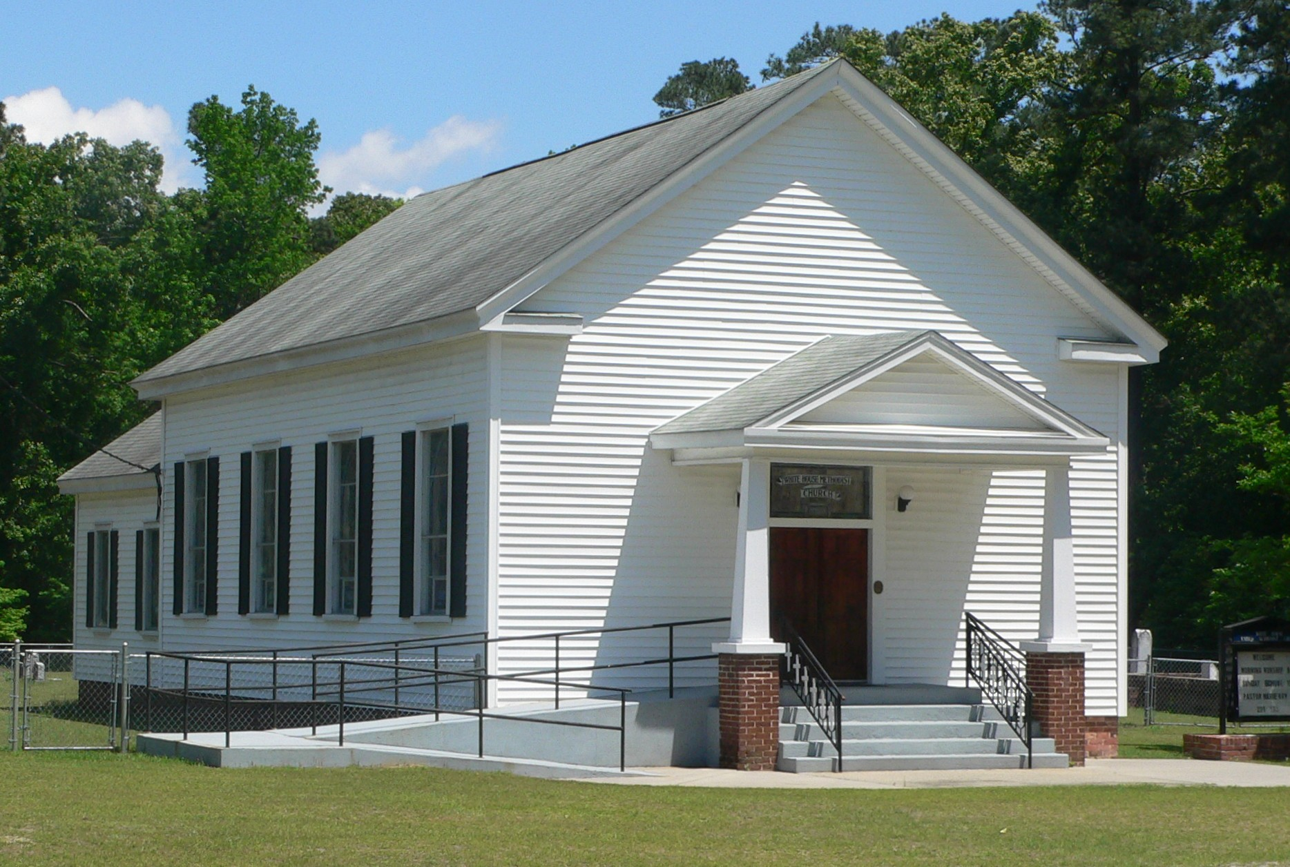 White House Church, located on north side of U.S. Highway 301 about a mile east of Interstate 26 in rural Orangeburg County, South Carolina; seen from the southwest.